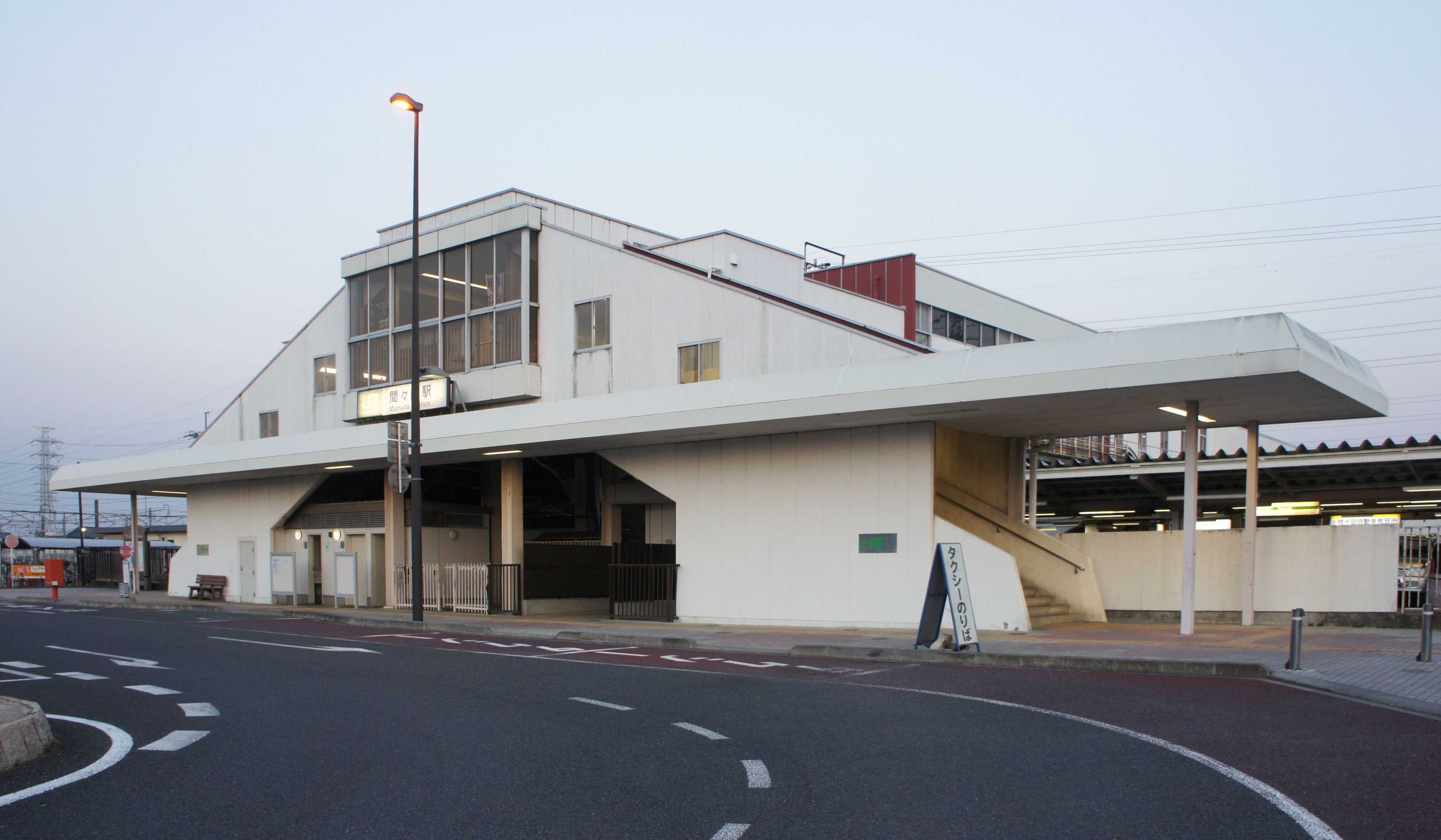 West Exit of JR Tohoku-Main-Line (Utsunomiya-Line) Mamada Station Sony NEX-3